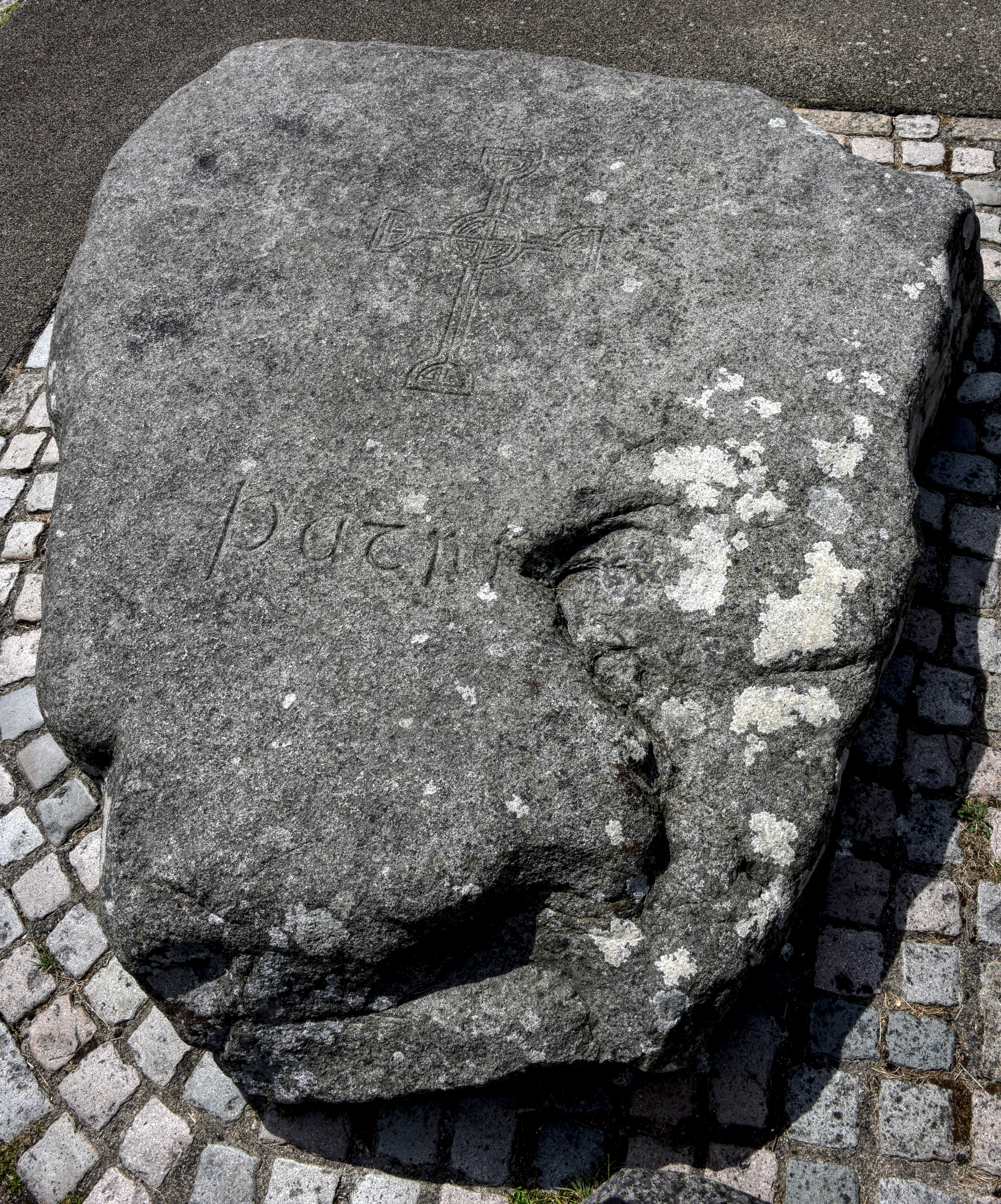 A stone marking the burial place of St. Patrick, in the churchyard of Down Cathedral.